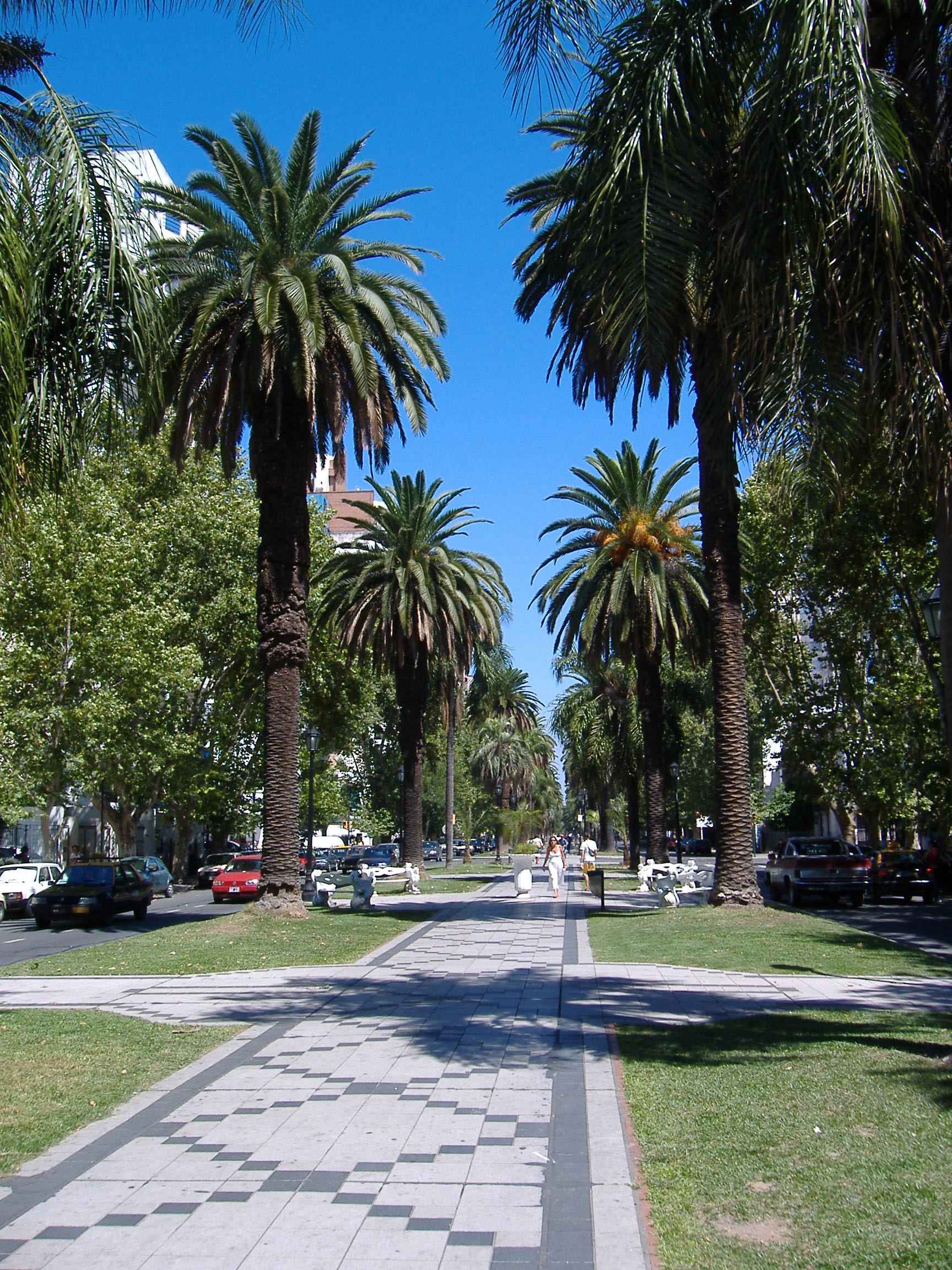 Bulevar Oroño (Oroño Boulevard) in downtown Rosario, Argentina. This is the central pedestrian passage, lined with palm trees and others. This picture was taken by Pablo D. Flores on 7 March 2006.